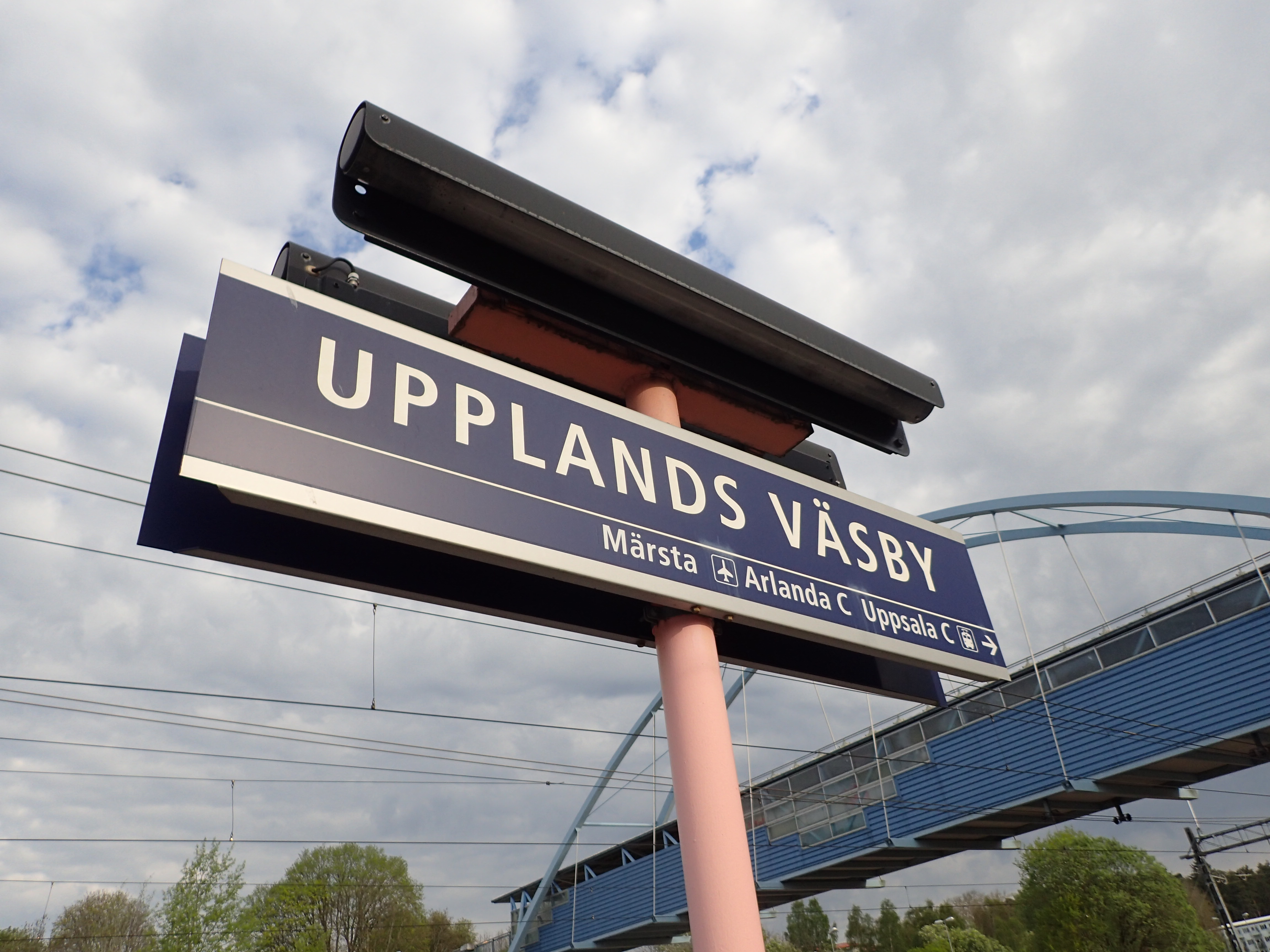 Upplands Väsby, skylt